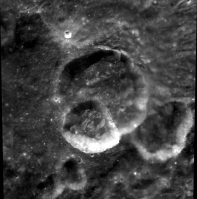 Stetson lunar crater - Clementine image